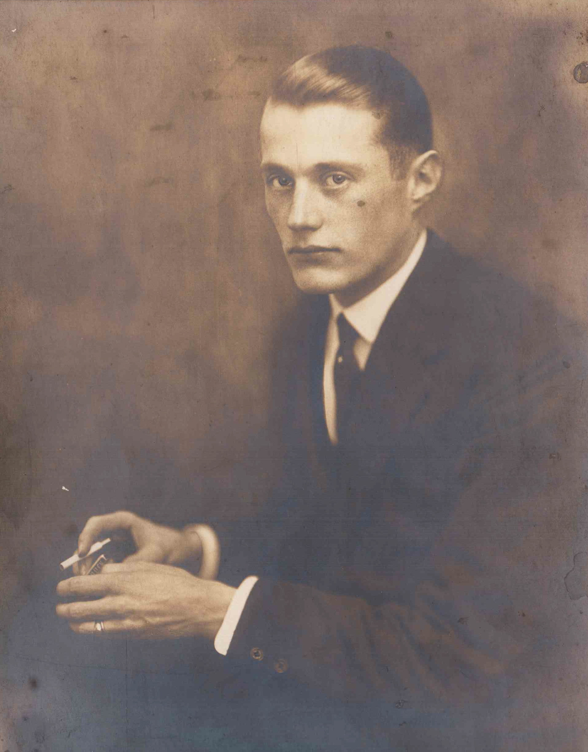 Ulrich-Wilhelm Graf von Schwerin von Schwanenfeld at the age of 24 years (Oct. 1927)